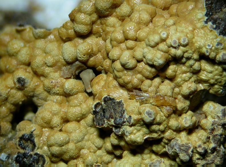 Atencioite Locality: Linópolis, Divino das Laranjeiras, Doce valley, Minas Gerais, Southeast Region, Brazil (Locality at ) A nice specimen of brown Atencioite. Field of view 7 mm. Specimen and photo Leon Hupperichs.